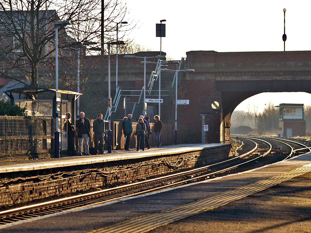 Manchester bound (Up direction) platform at Castleton station (Oldham Loop Line - Greater Manchester, England) with passengers waiting for the 14:03 (Daily) Rochdale to Kirkby (2F17). Thursday 13th December 2007